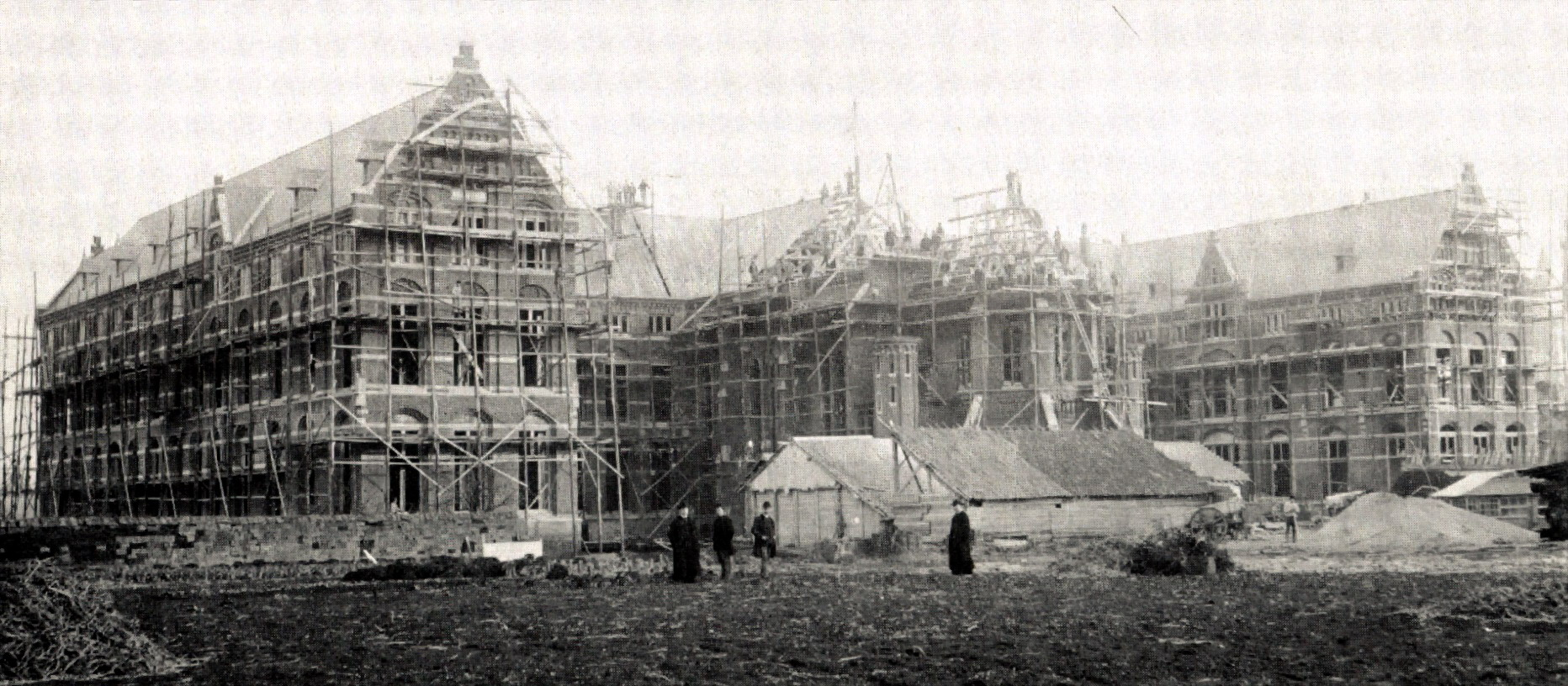 Maastricht, the Netherlands. Construction of the monastery of the Brethren of Maastricht around 1895 on the old Beyart monastery site.